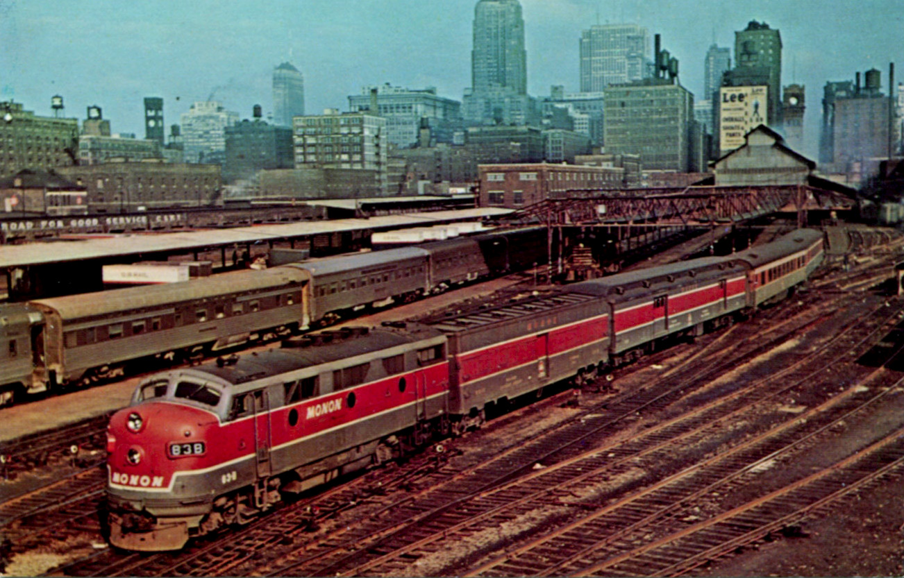 Postcard photo of the Monon train The Hoosier leaving Dearborn Station in Chicago for Indianapolis.